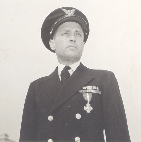 Cmdr. Quentin R. Walsh in his dress blues bearing his recently awarded Navy Cross Medal. U.S. Coast Guard photo.